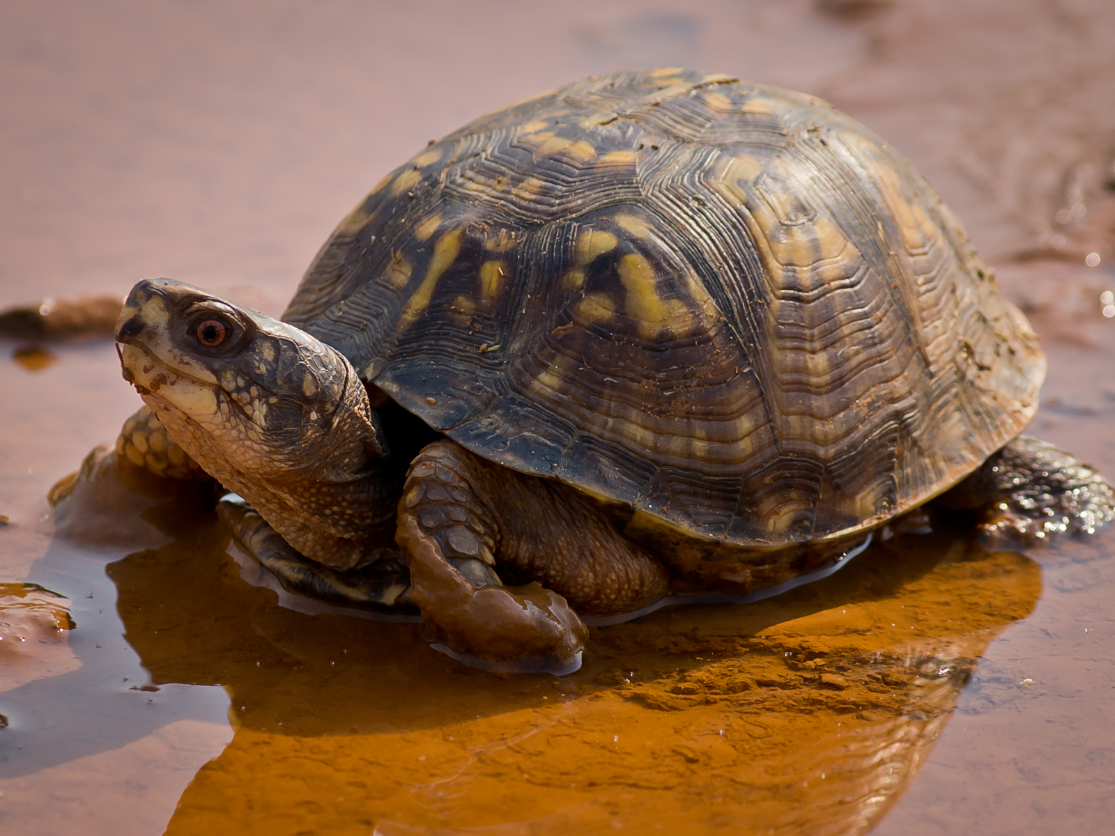 An Eastern Box Turtle (Terrapene carolina carolina) in the mud. Photo taken with an Olympus E-5 in Caldwell County, NC, USA.Cropping and post-processing performed with Adobe Lightroom.